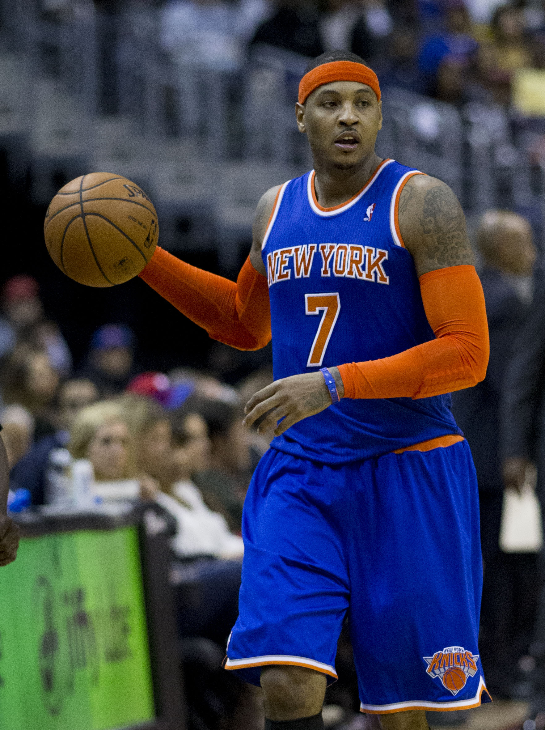 Knicks at Wizards 11/23/13